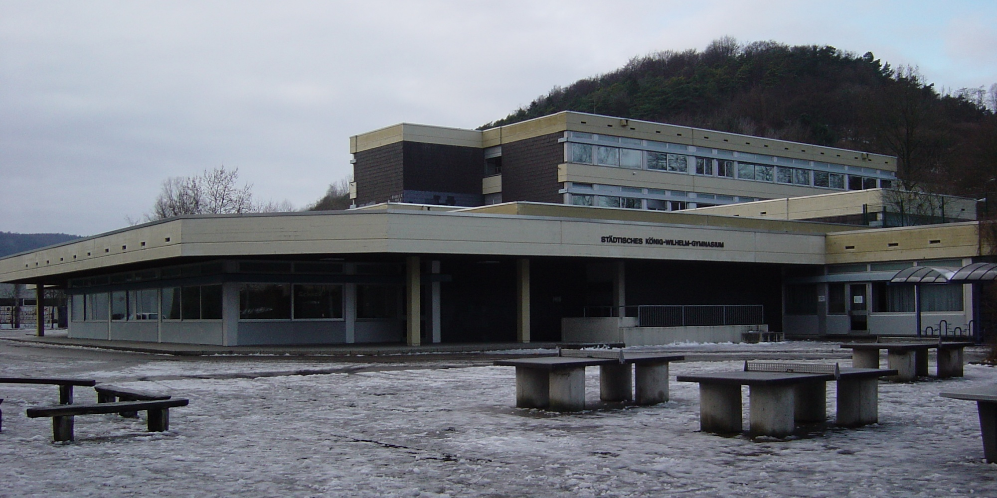 König-Wilhelm-Gymnasium Höxter (Germany)